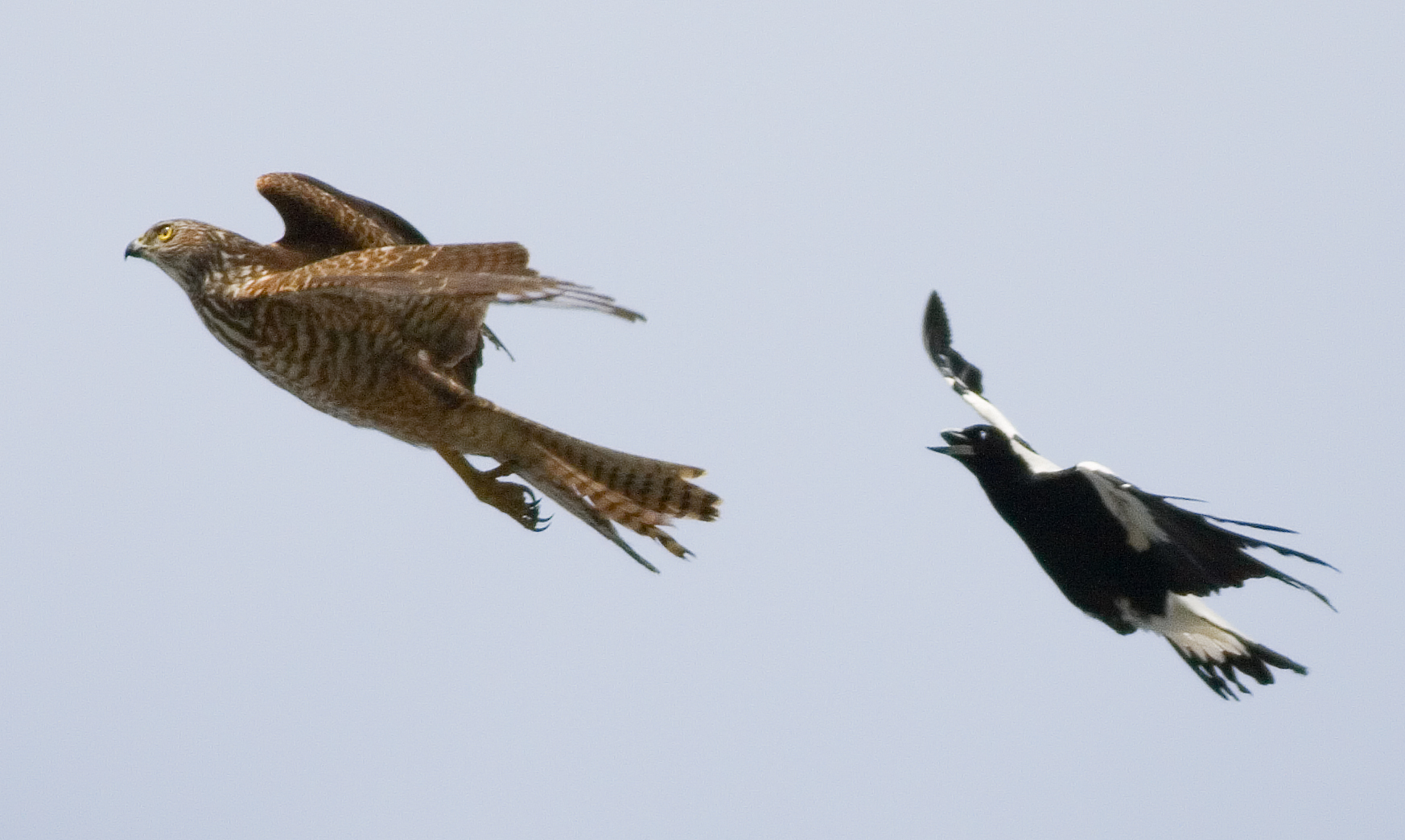 An immature Brown Goshawk (Accipiter fasciatus) in flight chased by an Australian Magpie. Camera data Camera Canon EOS 400D Lens Canon EF 400mm f5.6L Flash Fill, Fresnel Extender Focal length 400 mm Aperture f/5.6 Exposure time 1/3200 s Sensivity ISO 400